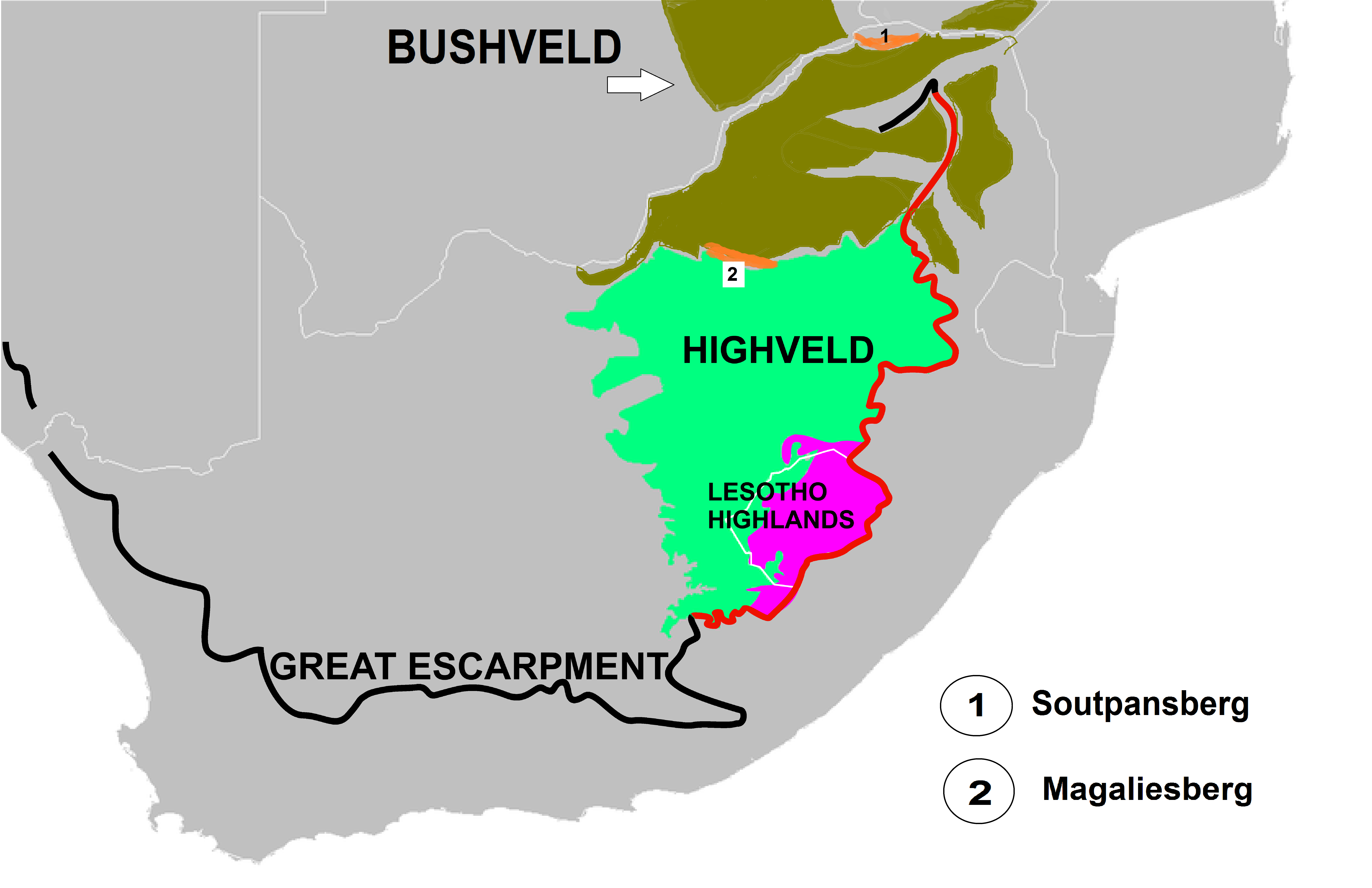 Lace and milestones between the Bushveld, Highveld areas